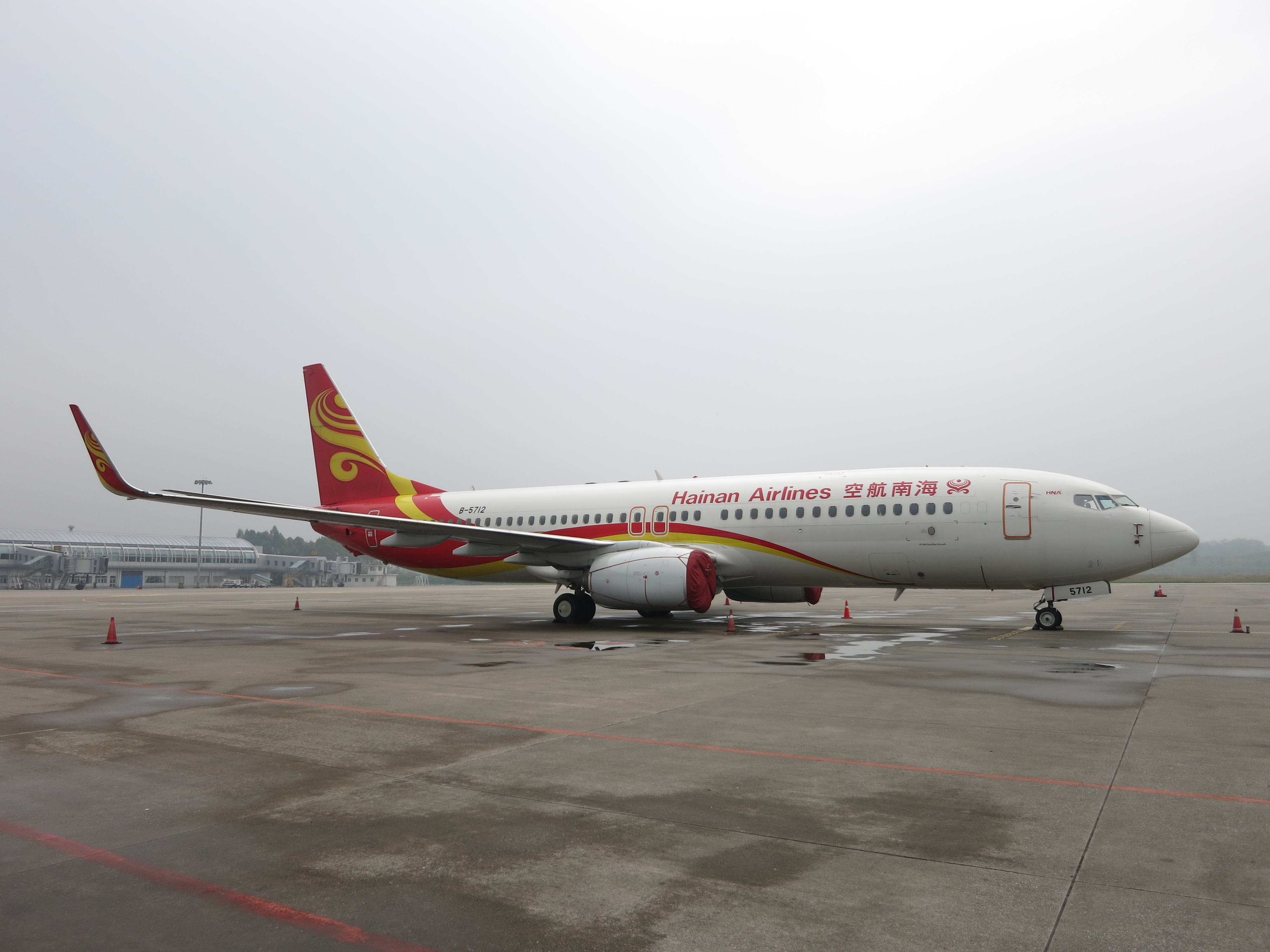 Hainan Airlines B737